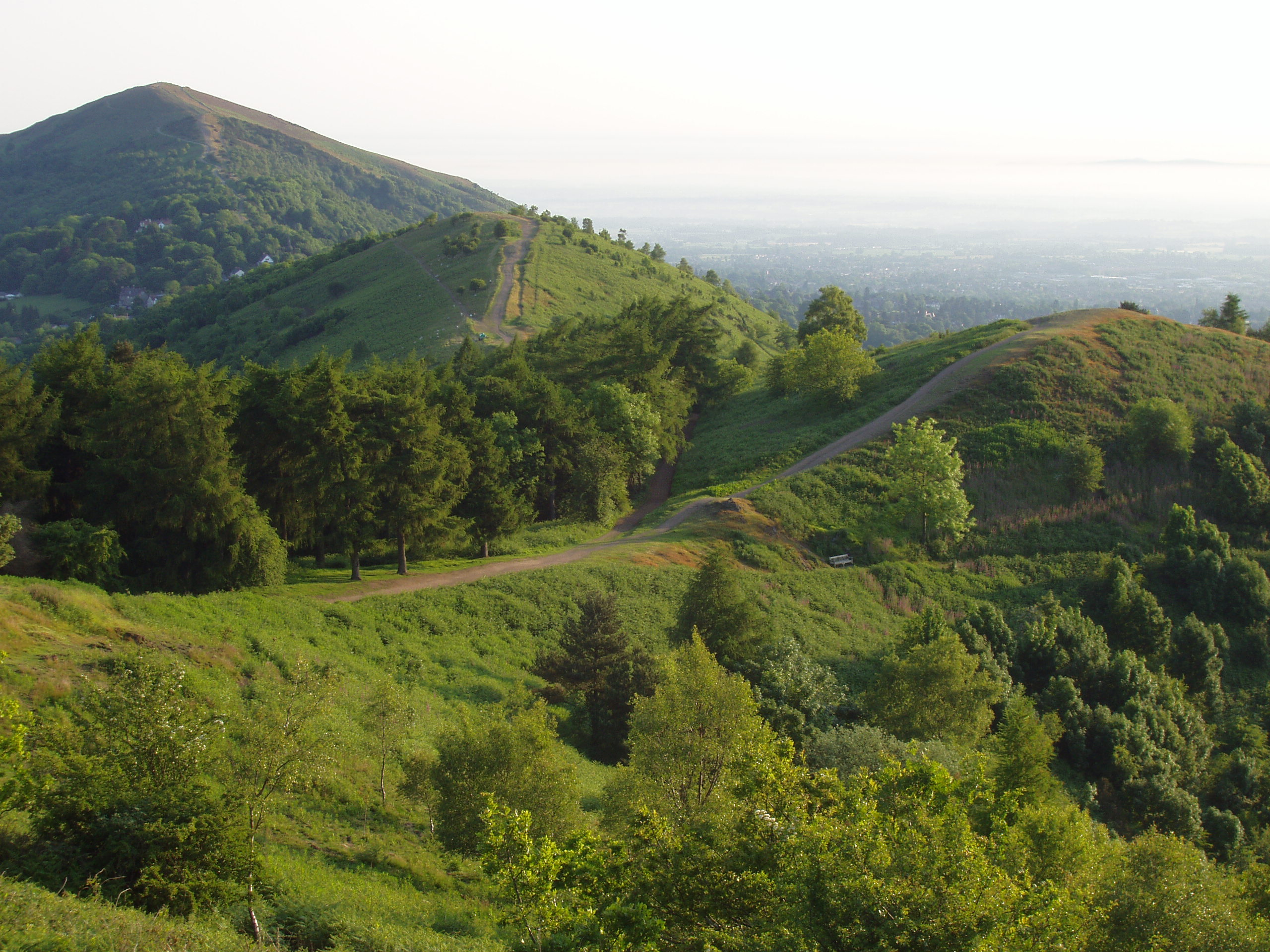 Malvern Hills in June 2005